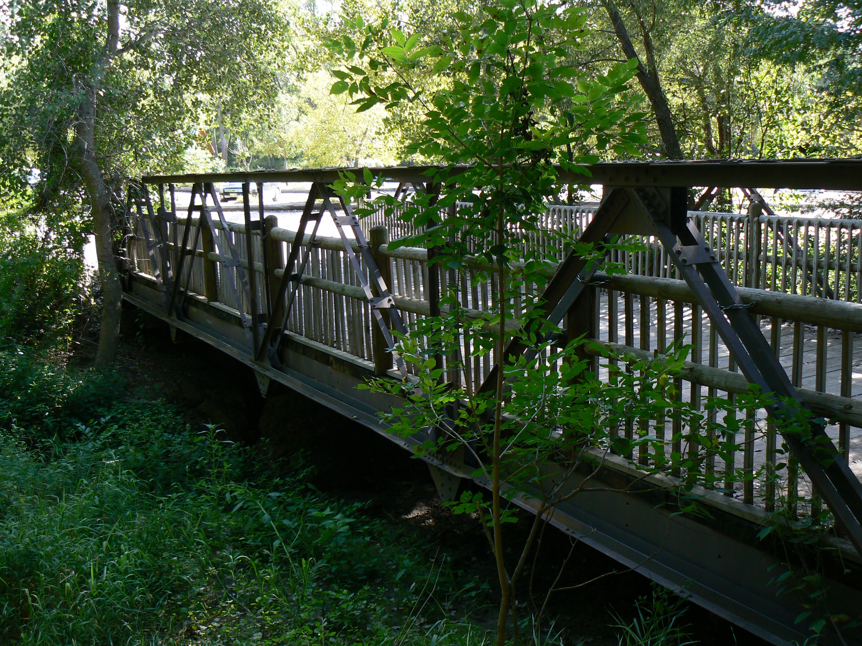 Mynard Road Bridge is a NRHP bridge in Cass County, Nebraska